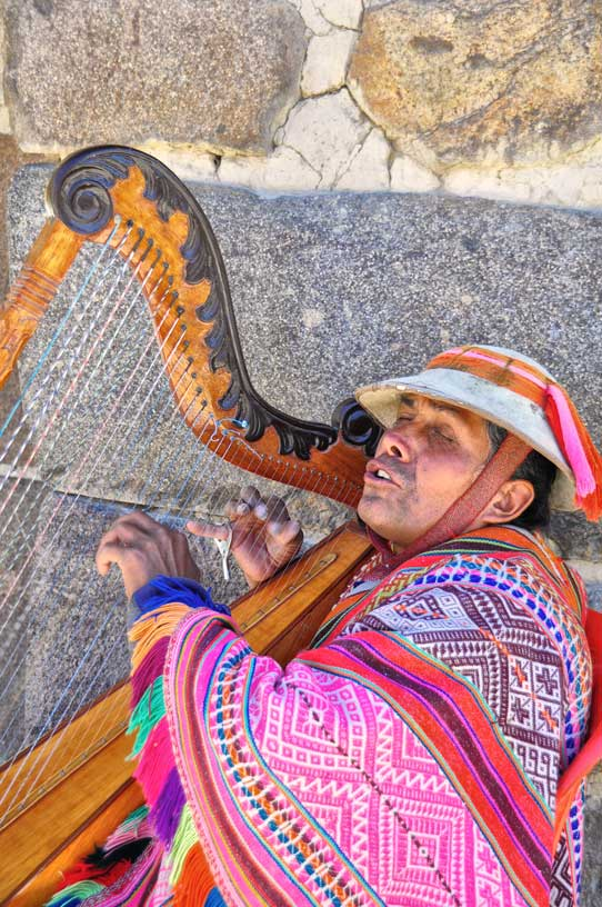 Blind Harp Player, Ollantaytambo, Peru